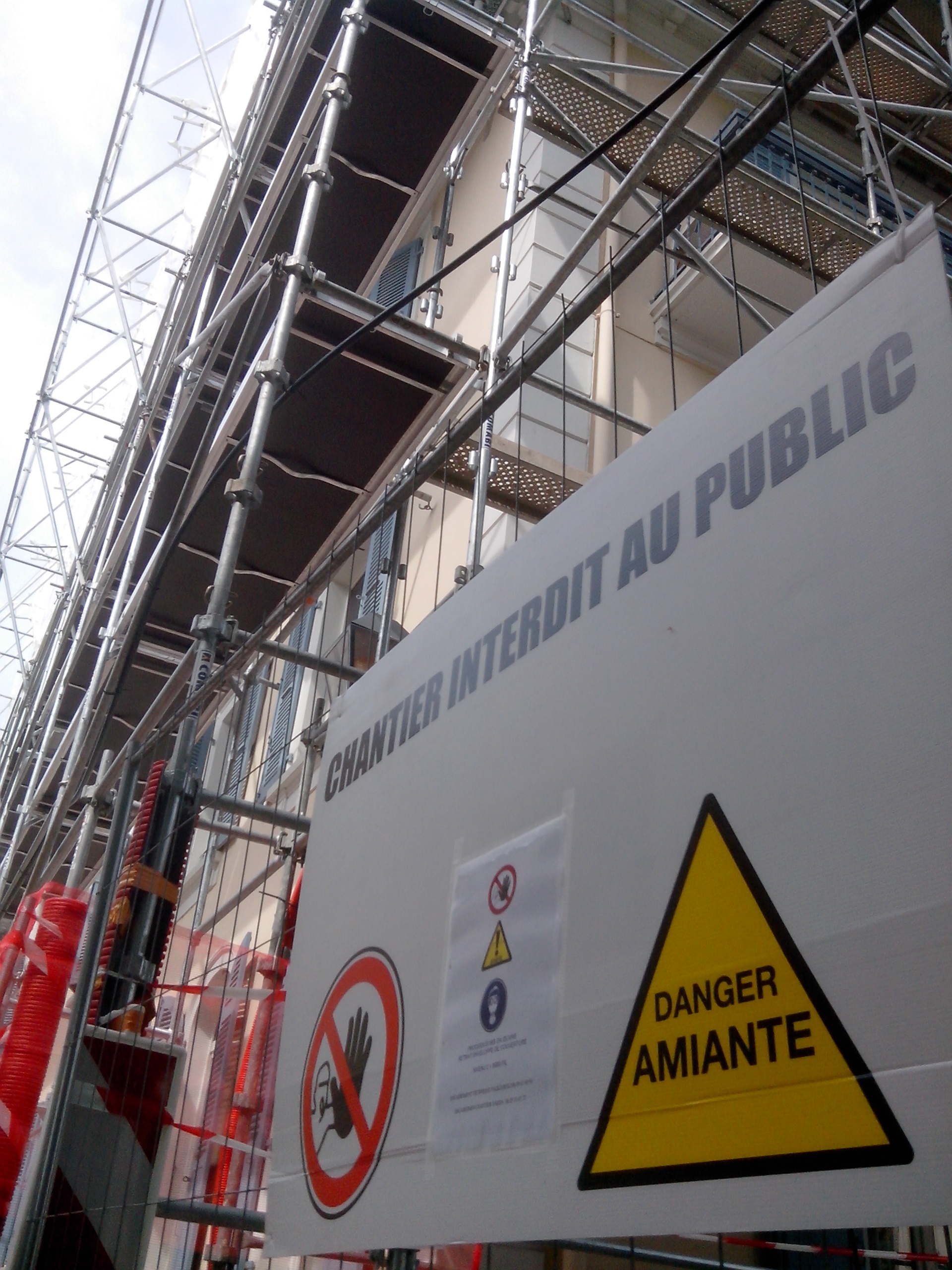 Removal asbestos site: warning